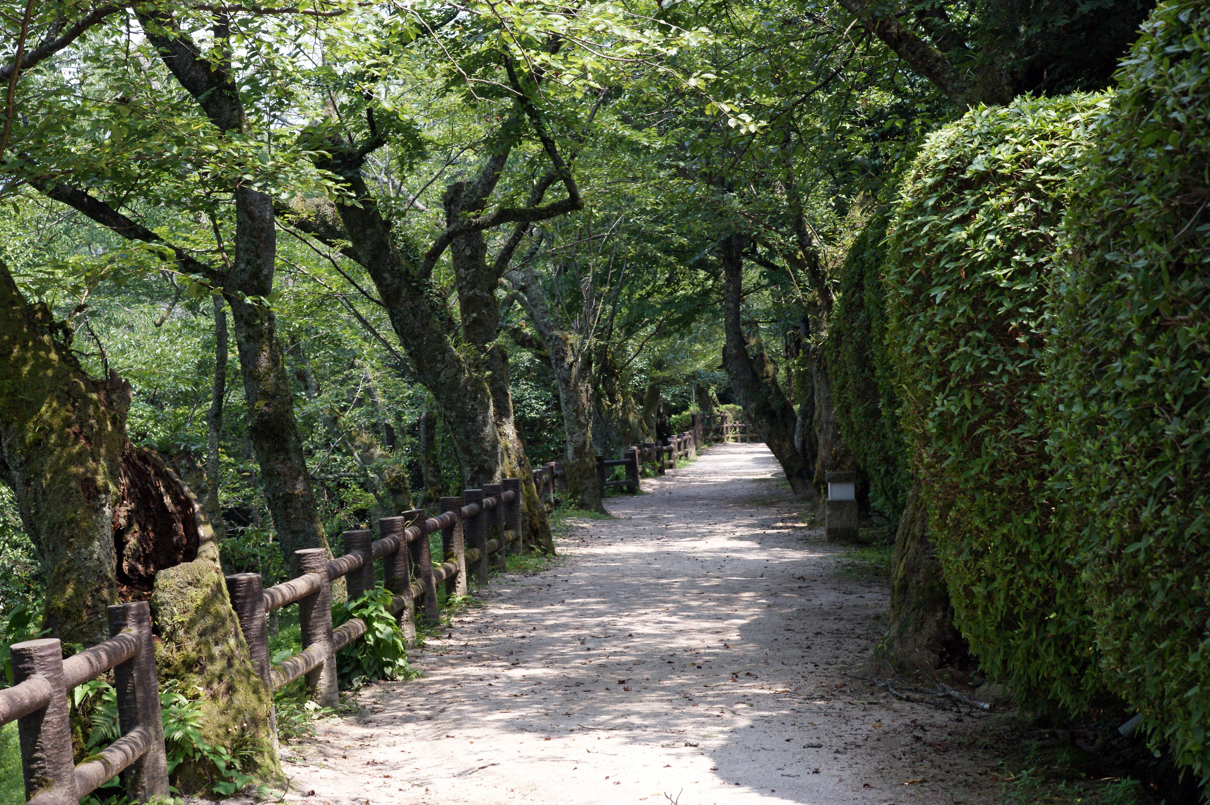 Utsubuki Park in Kurayoshi, Tottori prefecture, Japan